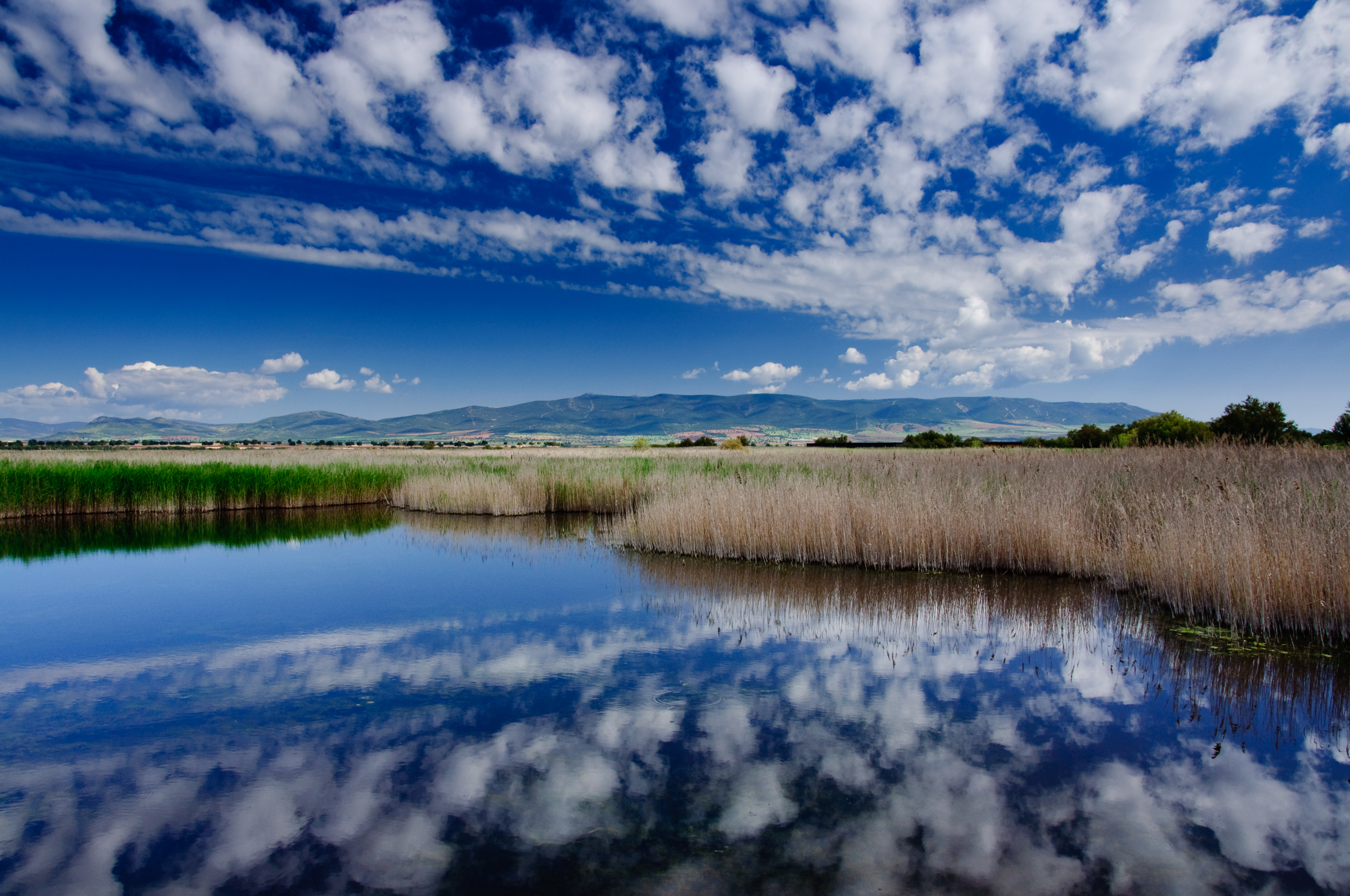 Las Tablas de Daimiel